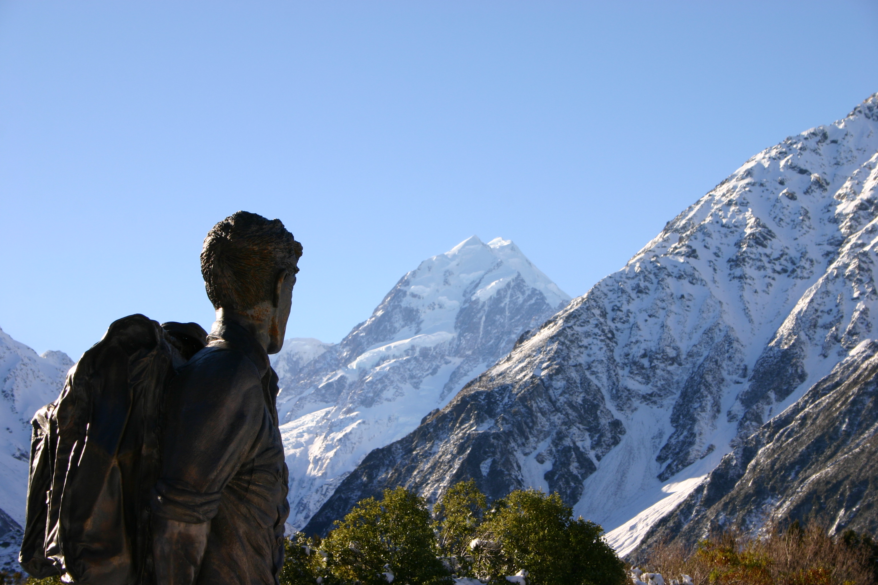 The statue of Sir Edmund Hillary permanently gazing towards New Zealand's highest peak, Aoraki/Mount Cook.